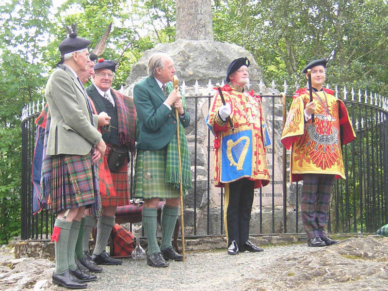 The installation of the Honorable Adam Bruce as Finlaggan Pursuivant of Arms to Clan MacDonald.